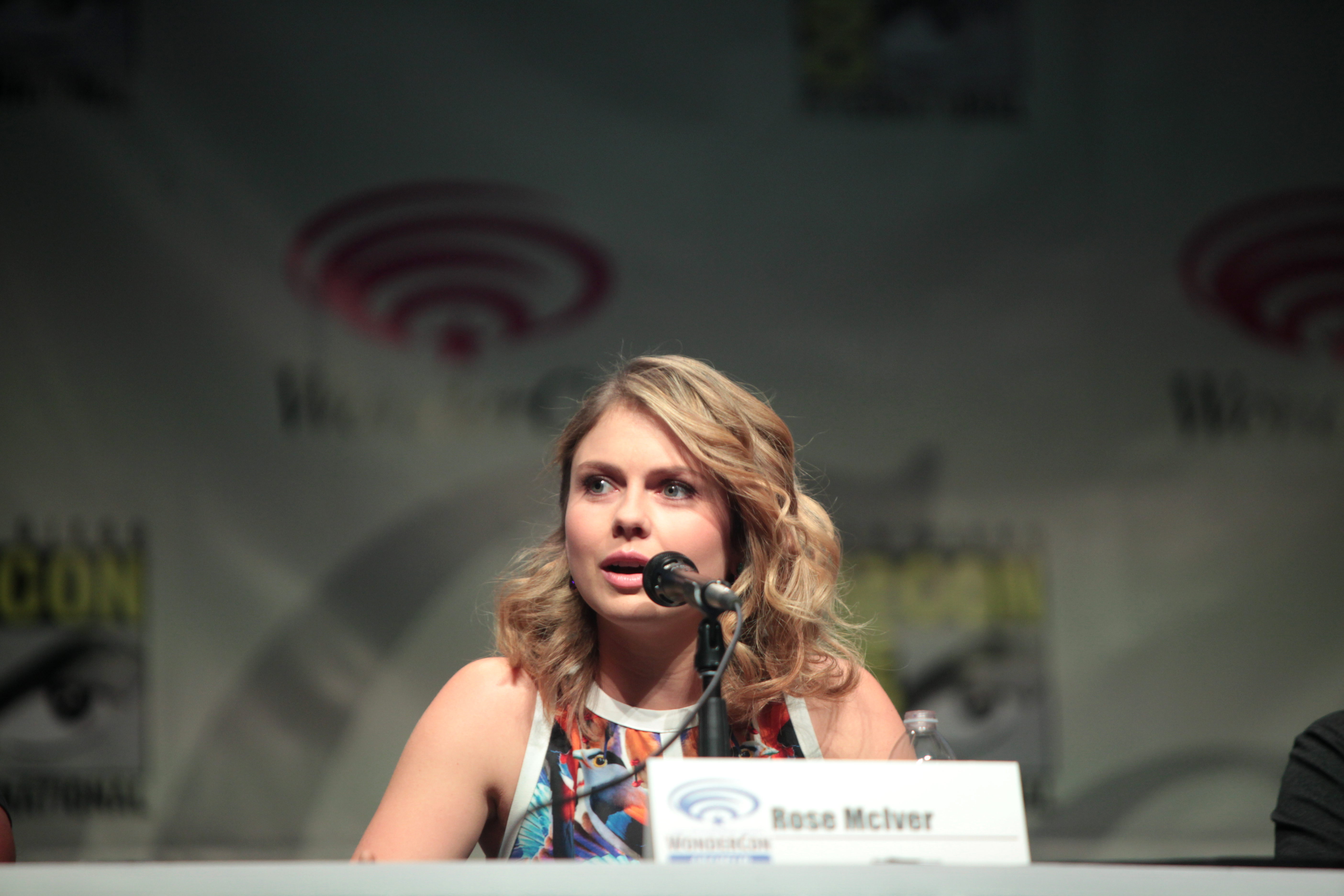 Rose McIver speaking at the 2015 Wondercon, for "iZombie", at the Anaheim Convention Center in Anaheim, California.